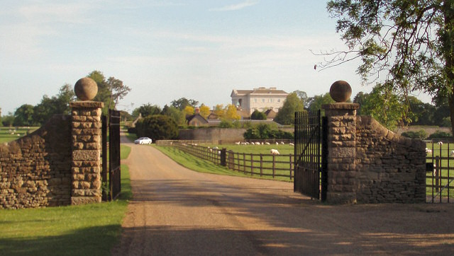 Gates to Tusmore Park, Oxfordshire